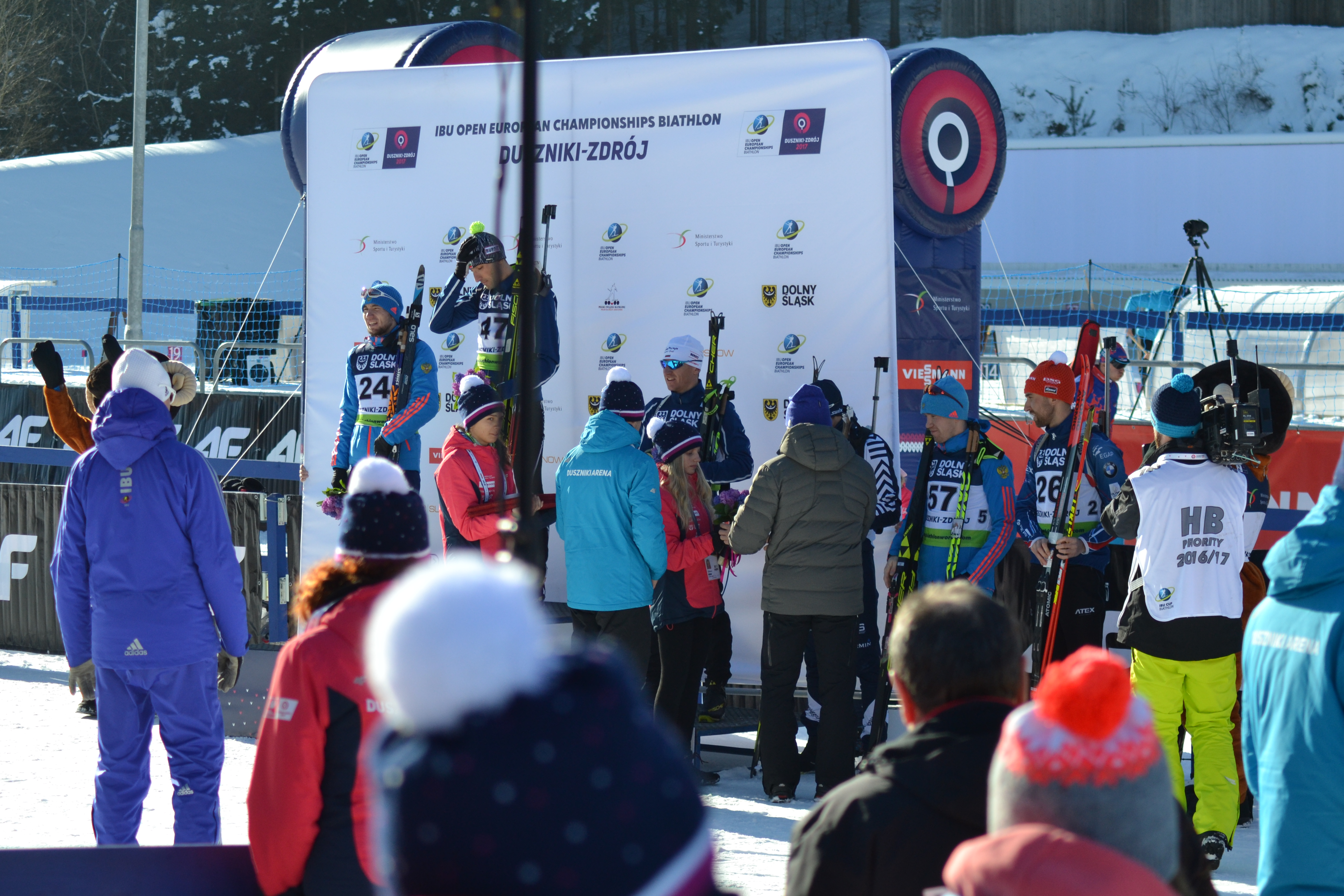 Open European Championships Biathlon 2017, Sprint Mens race.